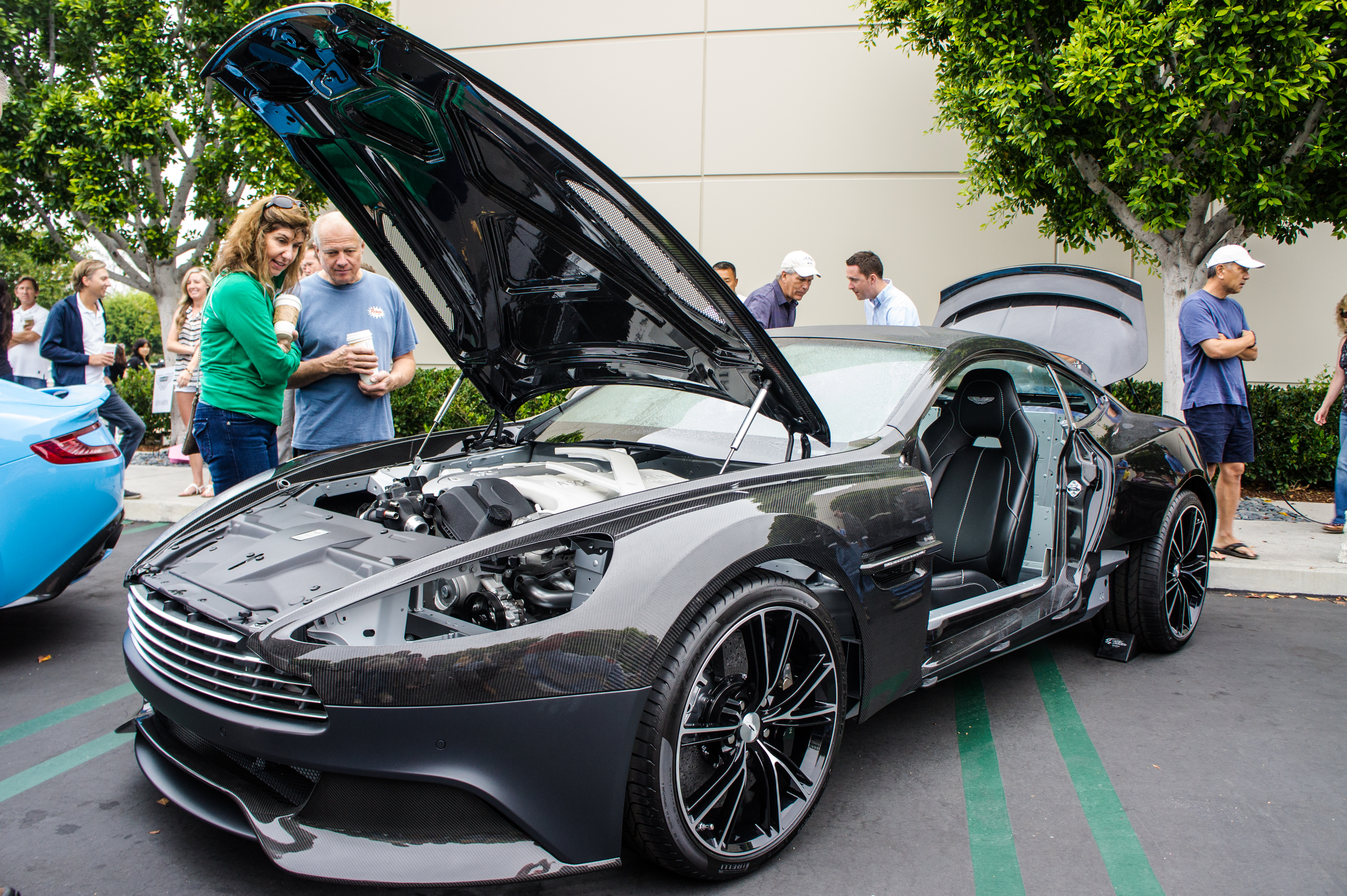 Cut-outs and such to show off all the technology involved. Fitted with only a driver's seat and wheel.